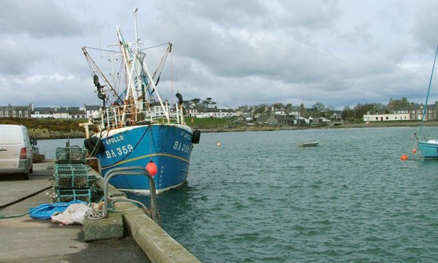 Isle of Whithorn Harbour at High Tide